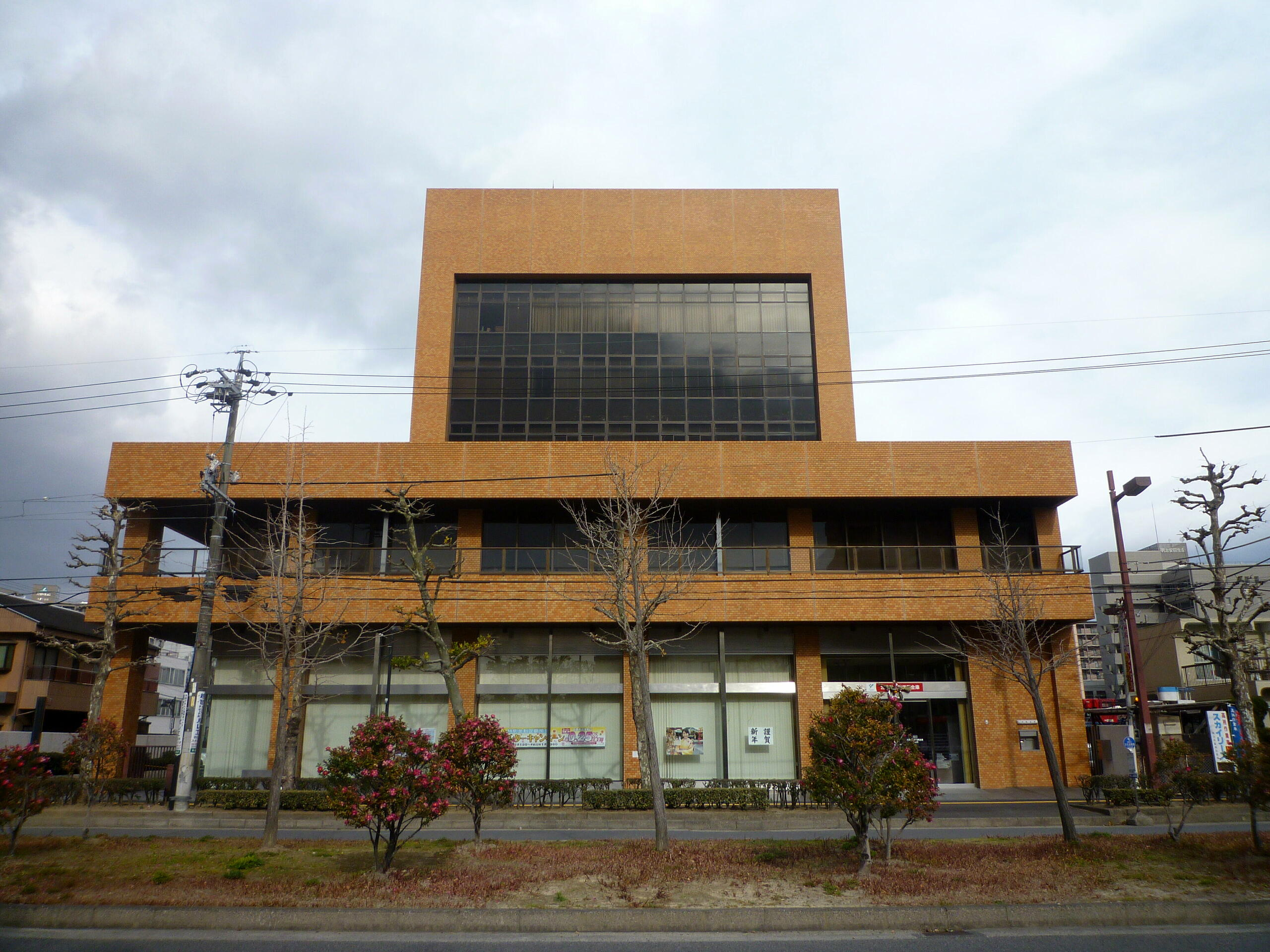 Head Office of The "KitaiseUeno Shinkin Bank" in Yasujima, Yokkaichi, Mie, Japan.